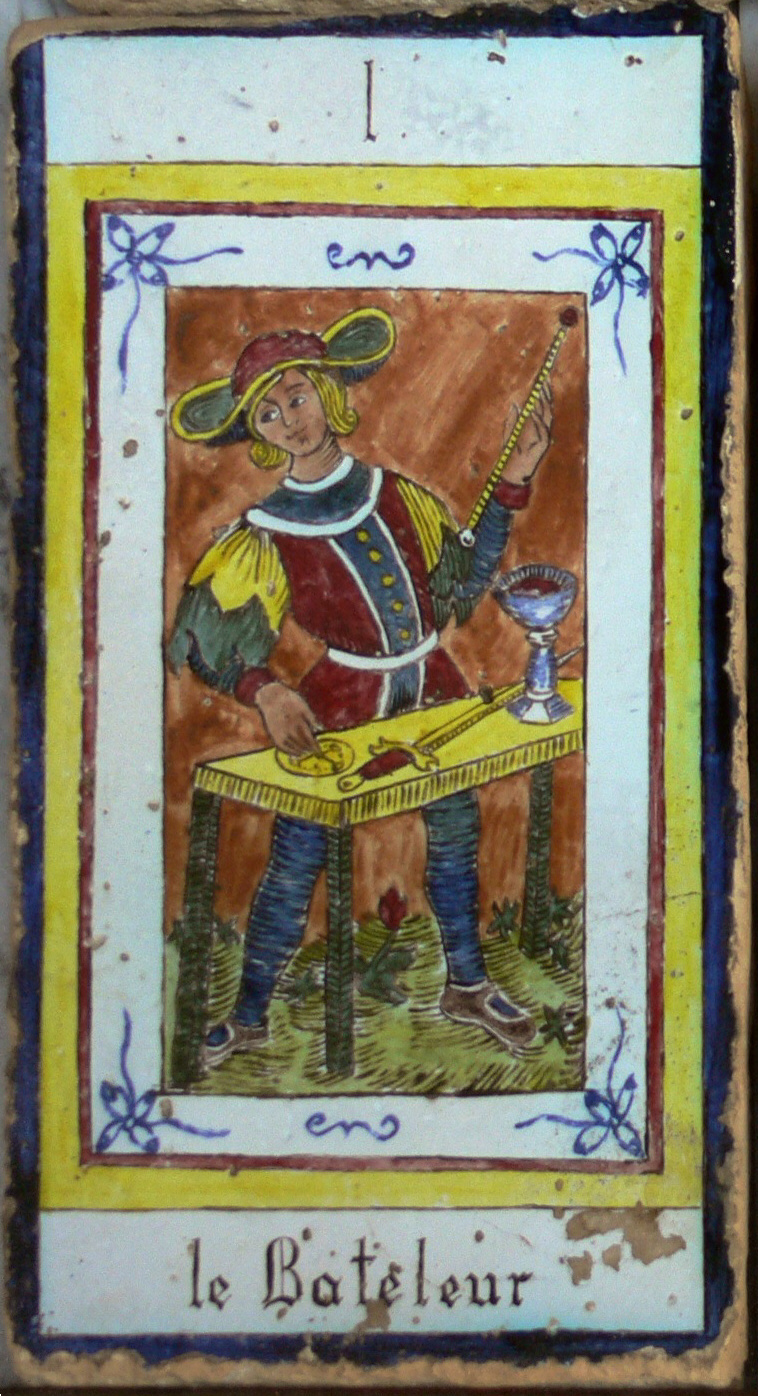 Bateleur (Busker, The Magus), the first card of the Major Arcana of the Tarot